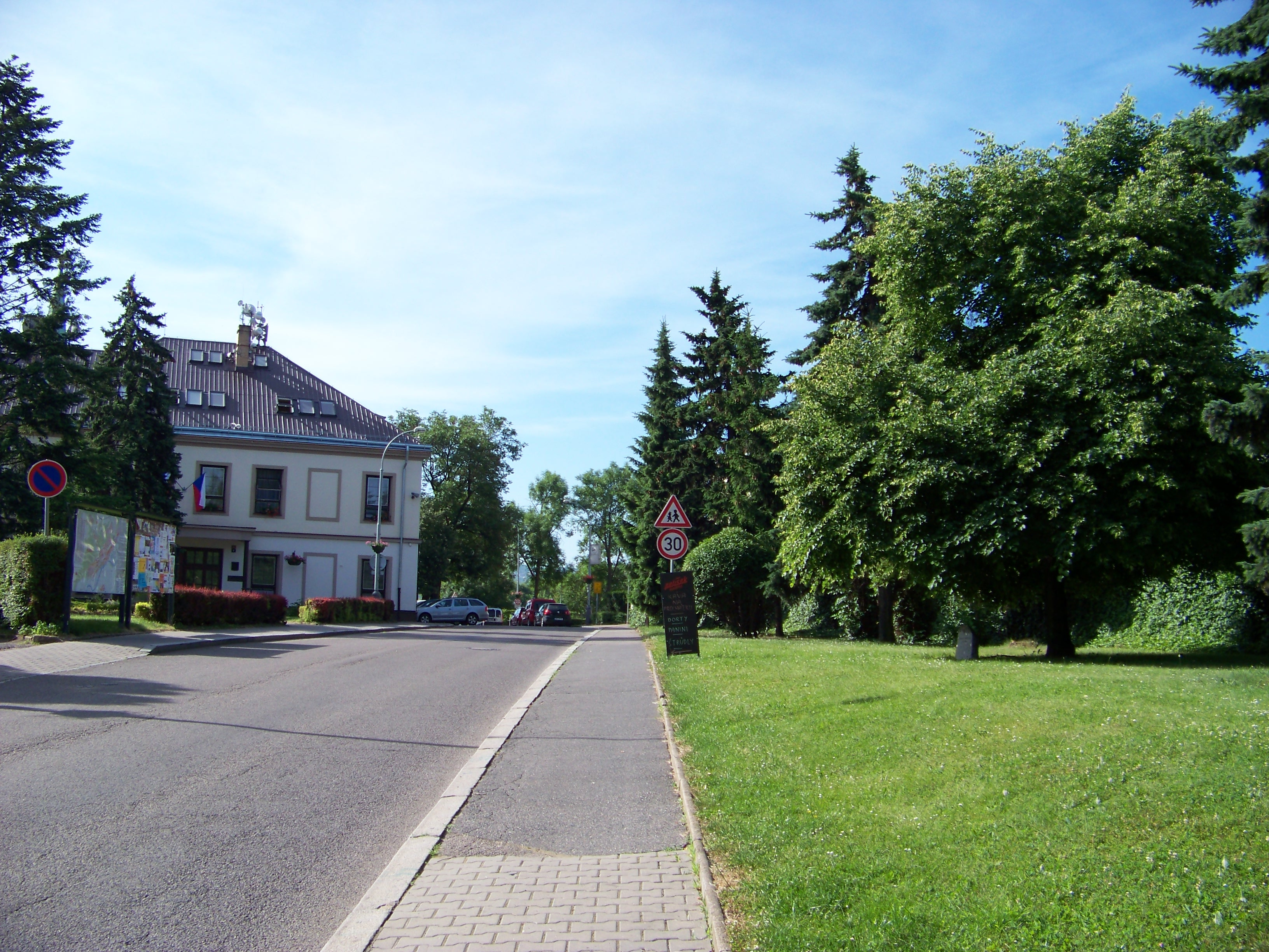 Prague-Radotín, Czech Republic. Václava Balého street.